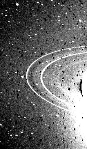 This 591-second exposure of the rings of Neptune were taken with the clear filter by the Voyager 2 wide-angle camera. The two main rings are clearly visible and appear complete over the region imaged. Also visible in this image is the inner faint ring and the faint band which extends smoothly from the ring roughly halfway between the two bright rings. Both of these newly discovered rings are broad and much fainter than the two narrow rings. The bright glare is due to over-exposure of the crescent on Neptune. Numerous bright stars are evident in the background. Both bright rings have material throughout their entire orbit, and are therefore continuous. The Voyager Mission is conducted by JPL for NASA's Office of Space Science and Applications.